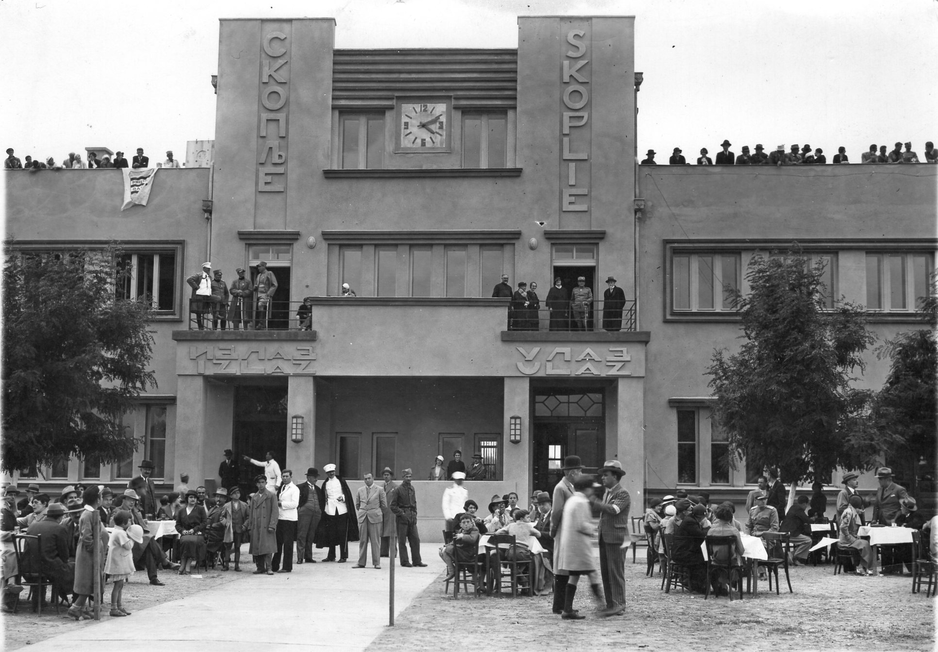 Skopje Airport, early 20th century This media file is produced by Wikipedian in Residence in Category:Wikipedian in Residence at DARM in 2016.